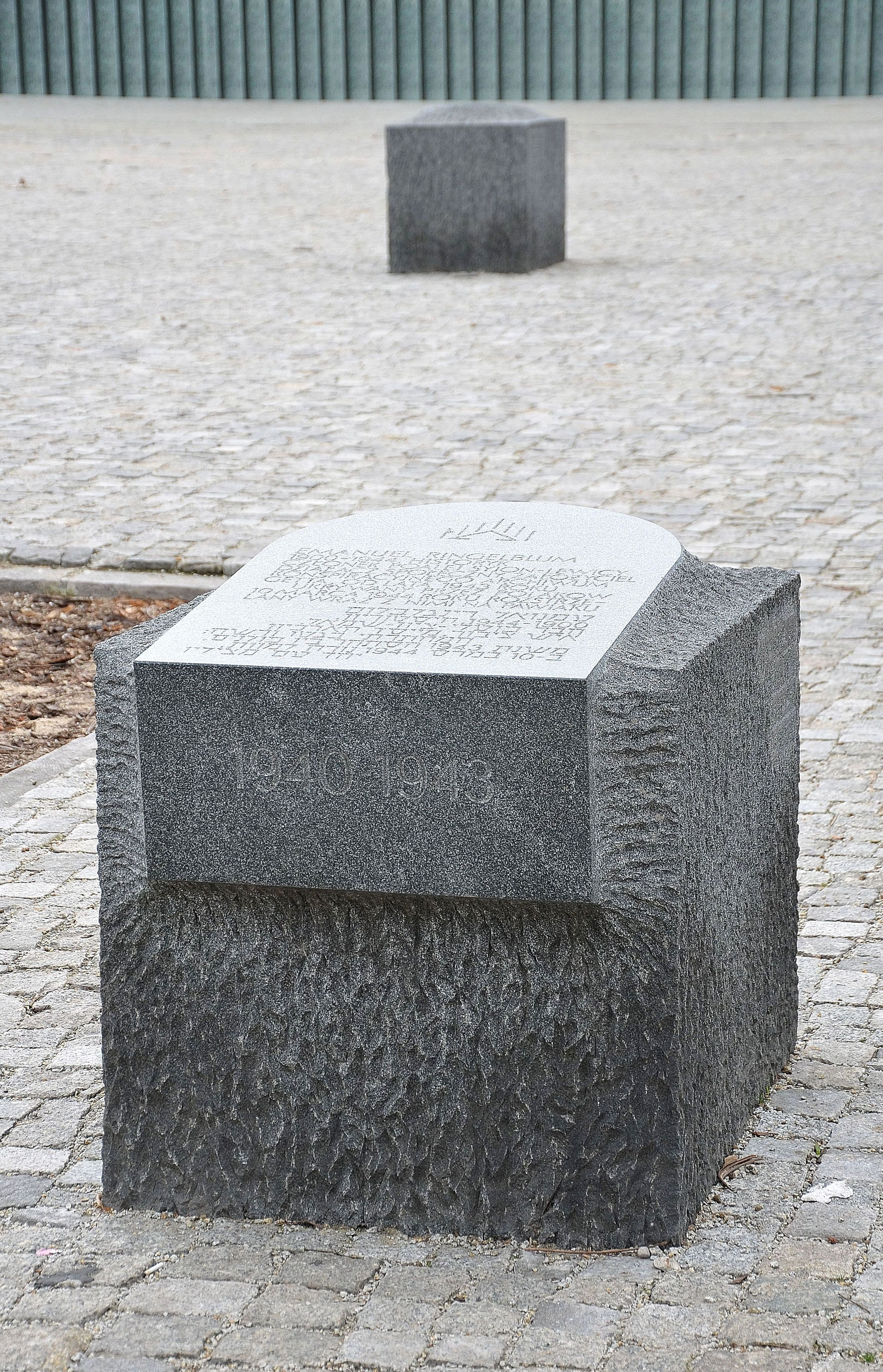 Blocks of the Memorial Route of Jewish Martyrdom and Struggle in Warsaw